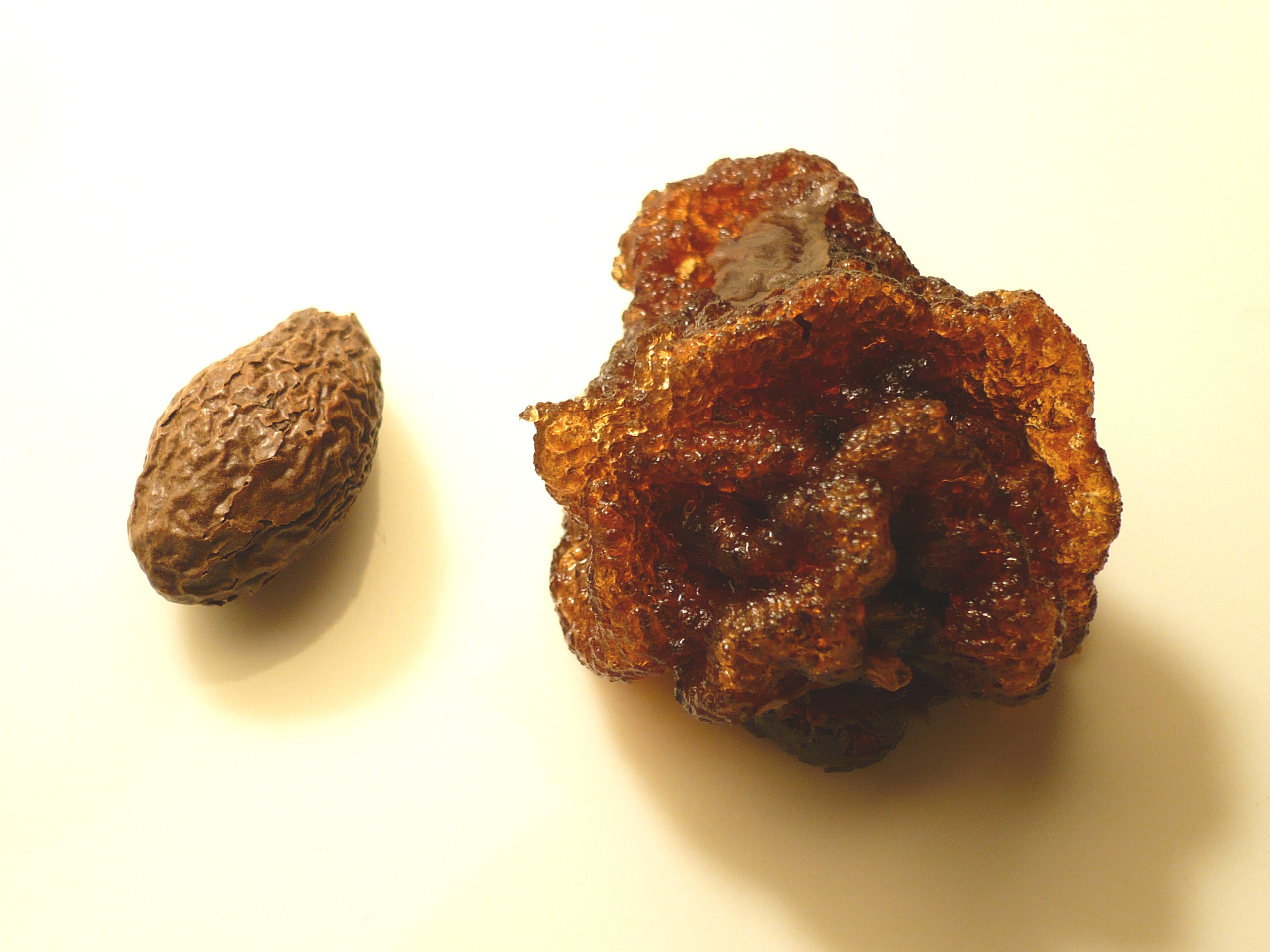 A Sterculia lychnophora seed that has been soaked in water, and consequently expanded, with skin removed (right); with dried, unsoaked Sterculia lychnophora seed at left for comparison. Photo taken in Kent, Ohio with a Panasonic Lumix digital camera (model DMC-LS75). Sterculia lychnophora seeds purchased in a Cleveland, Ohio Vietnamese grocery store. In various languages, the seeds are called poontalai, pangdahai, samrong, hột lười ươi, hạt lười ươi, đười ươi, mak chong, or malva nuts. In Vietnam, they are soaked and mixed with sugar to produce a refreshing drink enjoyed in the summer.